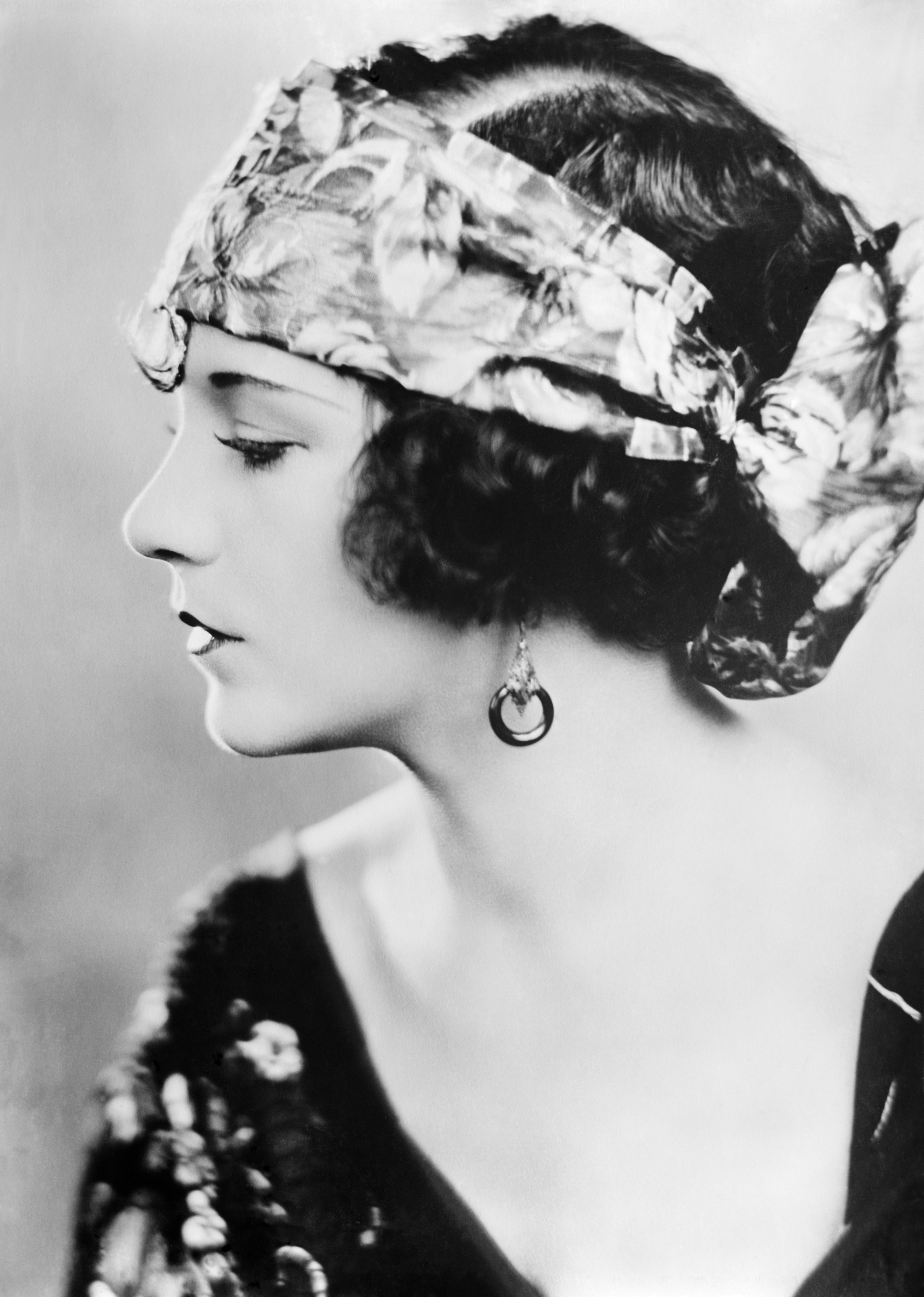 Viola Dana, unattributed and undated portrait by the Bain News Service. From the George Grantham Bain Collection at the U.S. Library of Congress. More Bain photos | More actresses in black&white [PD] This picture is in the public domain